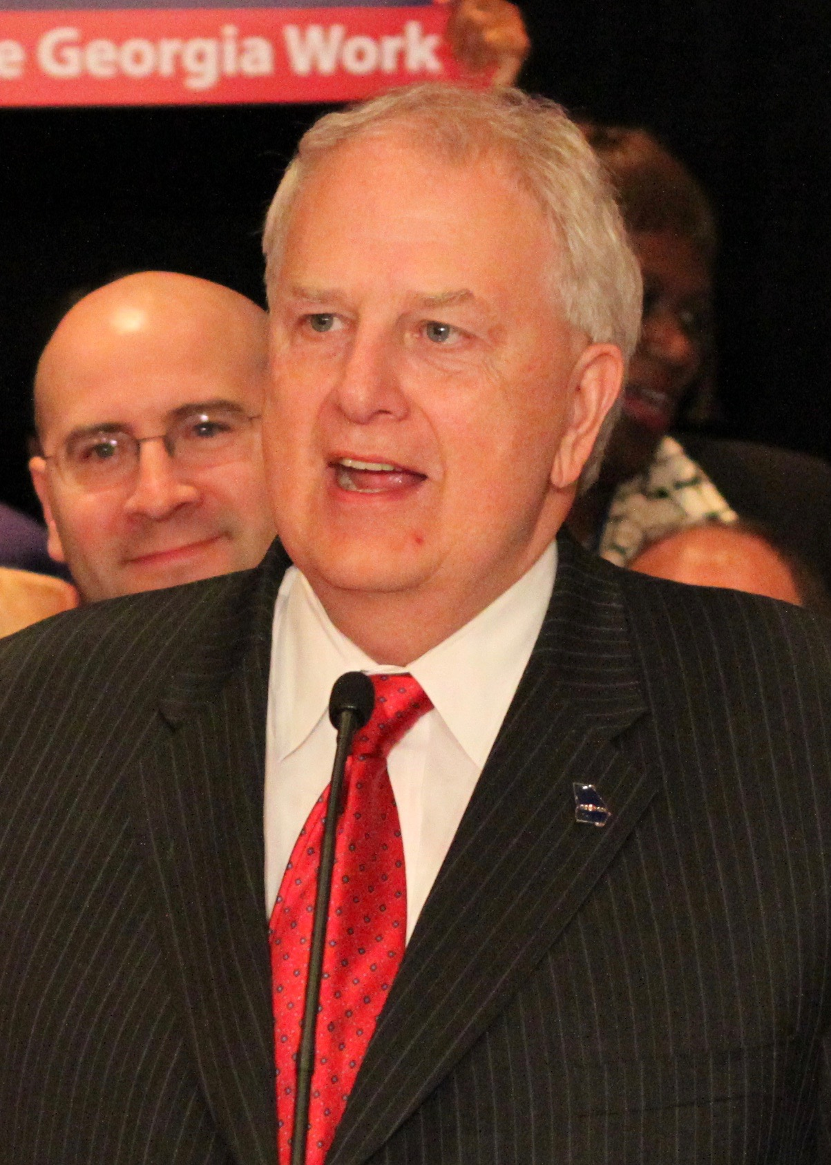 Roy Barnes giving a speech after failing to return to the position of Governor of Georgia in the 2010 midterm election.